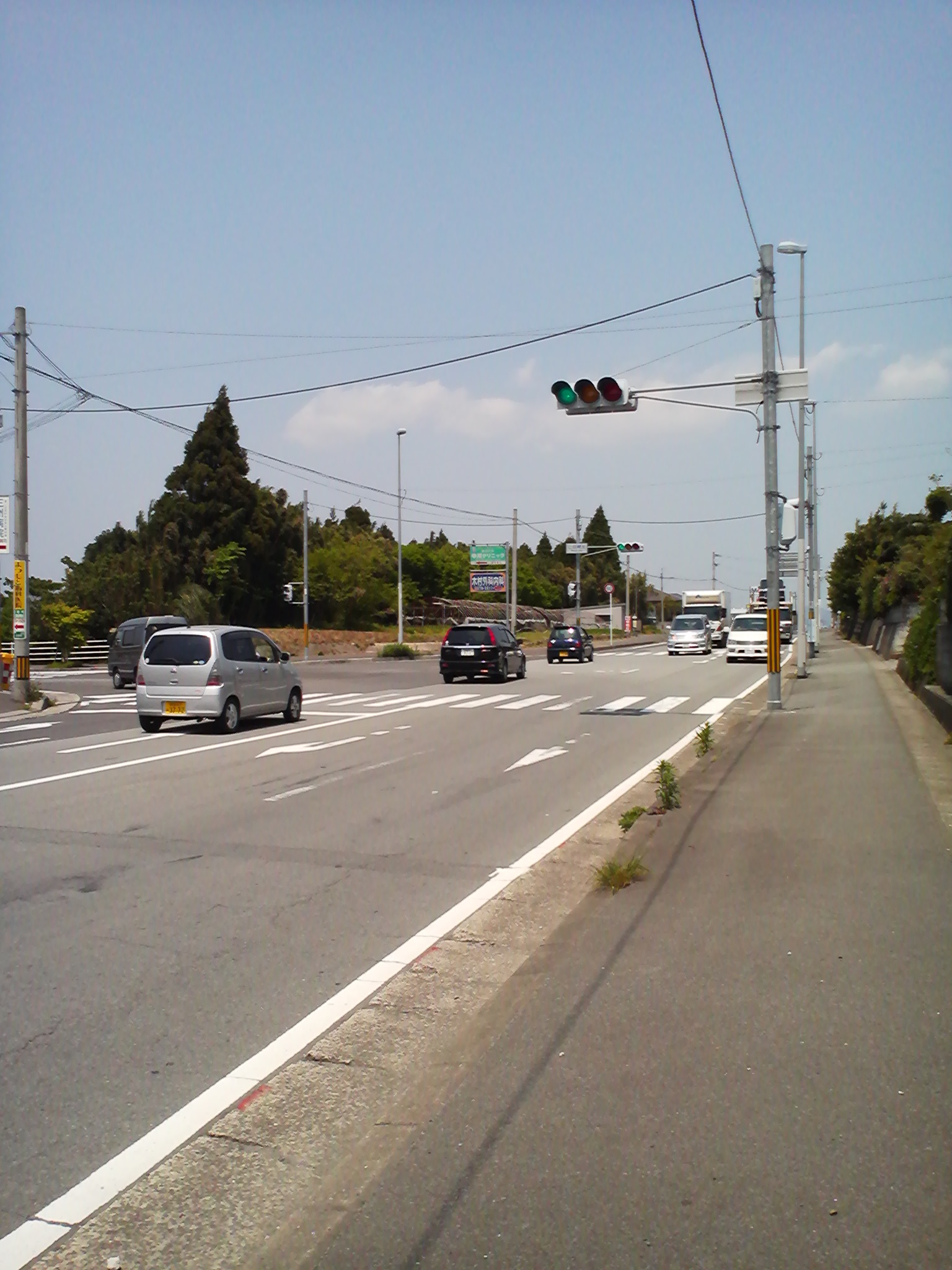 The Kagoshima Prefectural Road Route 24 at Nitaokita Intersection in Kagoshima City, view towards central Kagoshima